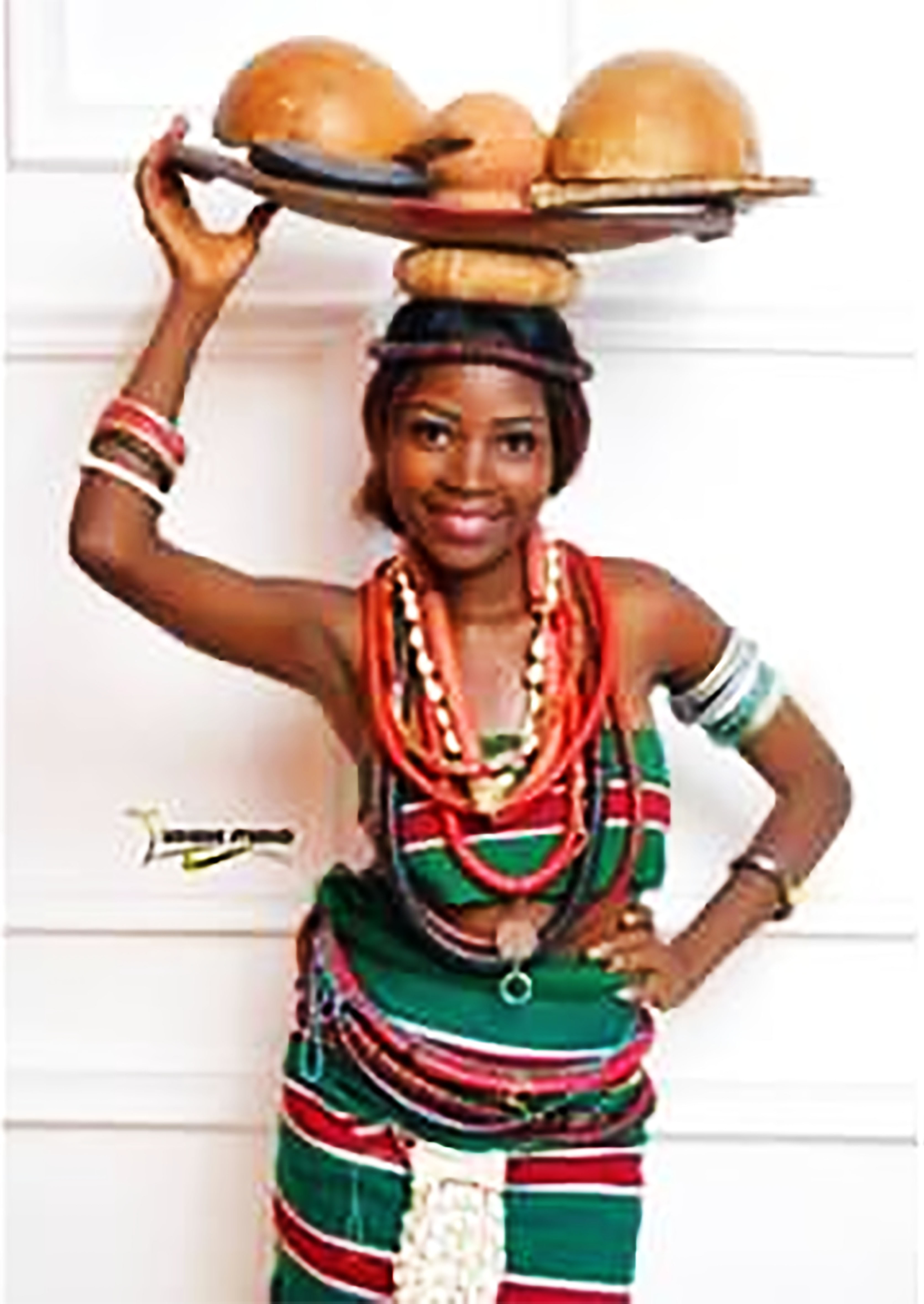 This photo has been taken in the country: Nigeria